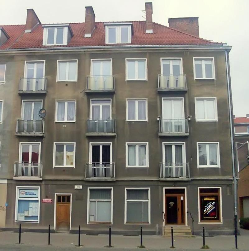 The house, wherein lived and created Stanisław Michałowski in years 1957-1980 in Gdańsk. Localisation at Podwale Staromiejskie 89 Street.